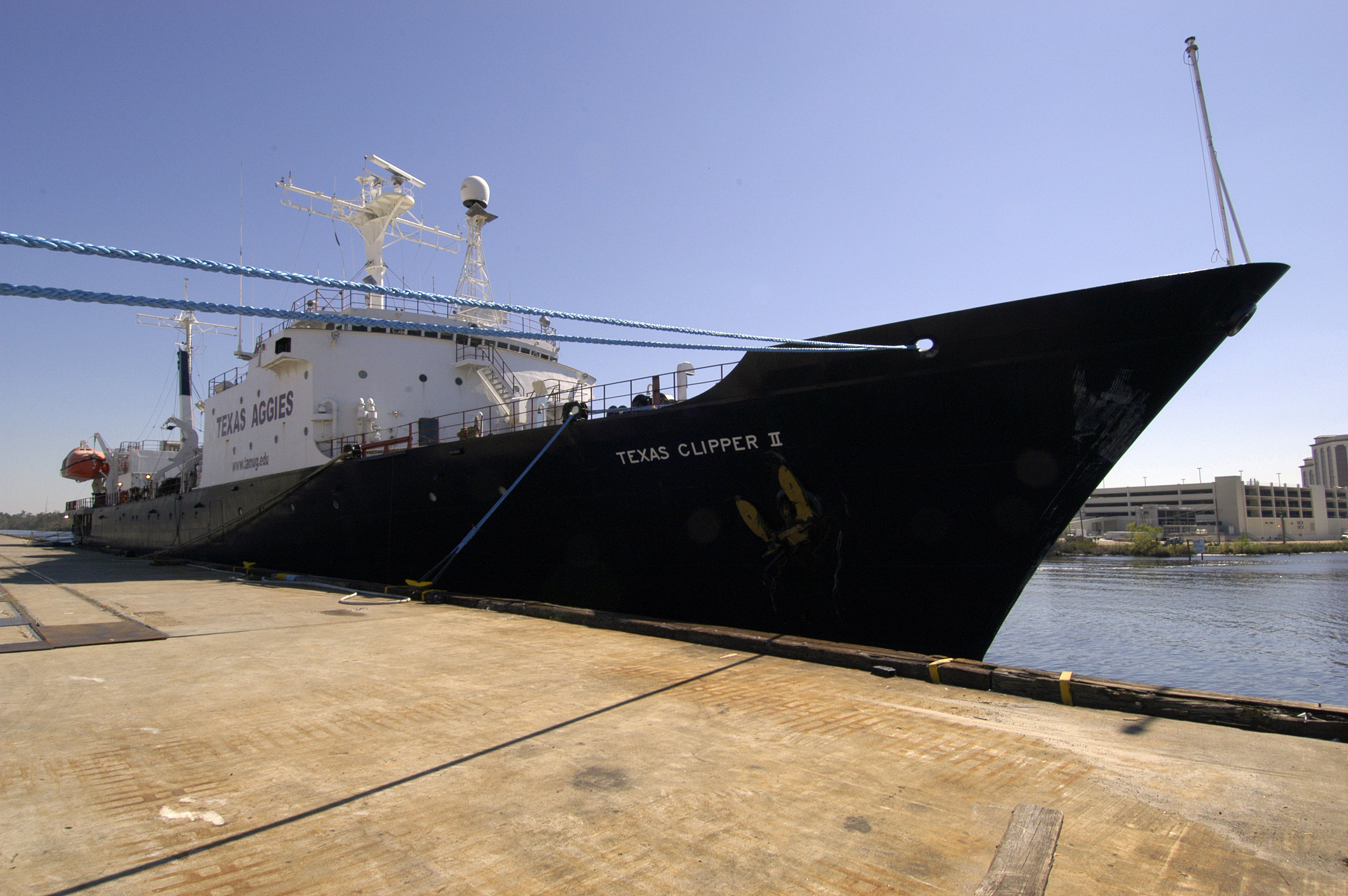 Lake Charles, LA, 10-09-05 -- The Texas Clipper II, a 200 bed Texas A and M traing ship, docks at the Port of Lake Charles to be used as FEMA housing for City and county government employees who are homeless because of Hurricane Rita. Due to the severe housing shortage, FEMA provides housing for local government workers displaced by Hurricane Rita who are needed to keep local government running. MARVIN NAUMAN/FEMA photo